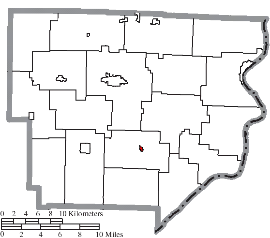 Map of the municipal and township boundaries of Monroe County, Ohio, United States, as of the 2000 census, with the location of the village of Antioch highlighted. Township borders are shown only in unincorporated areas in order to differentiate incorporated and unincorporated areas more clearly.